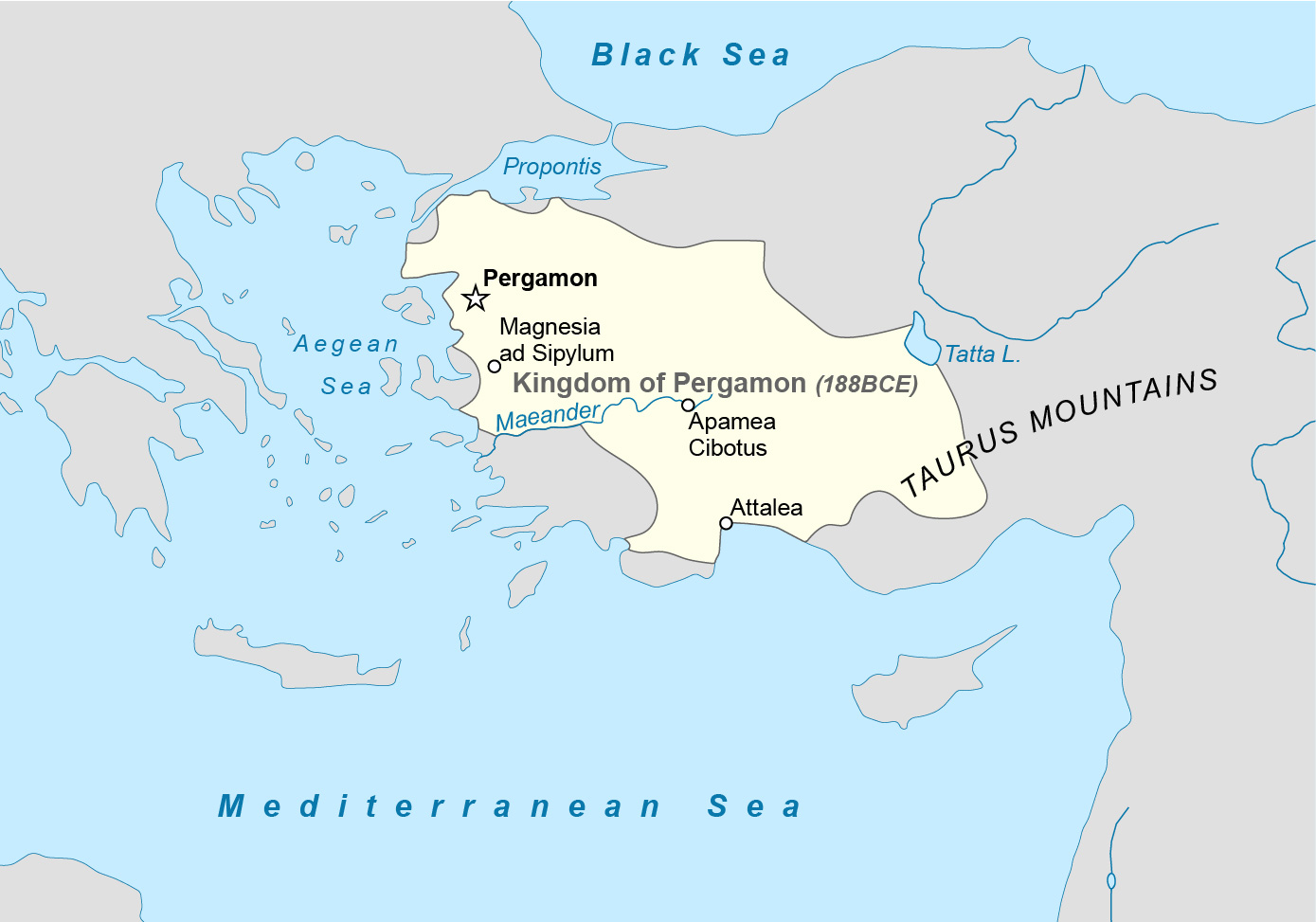 Pergamon in 188BCE, based on